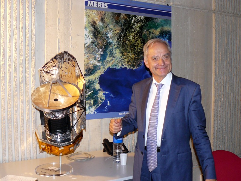 André Brahic, astronomer, one of the fathers of Herschel and Planck programmes